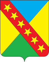 Coat of arms of Priazovskaya, Primorsko-Ajtarsk Raion, Krasnodar Krai, Russia.